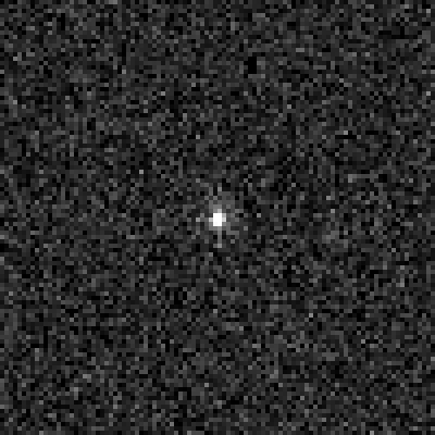 Single-exposure W3 band (12 μm wavelength range) image of Jupiter's moon Ananke by the Wide-Field Infrared Survey Explorer (WISE) on 23 June 2010 16:03:08 UT. This image was processed from dataset 05777b154-w3 in archival WISE data provided by the IRSA.